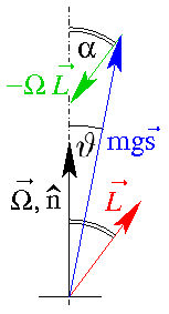 Plane that containts the vertical axis of rotation, the center of gravity and the angular momentum